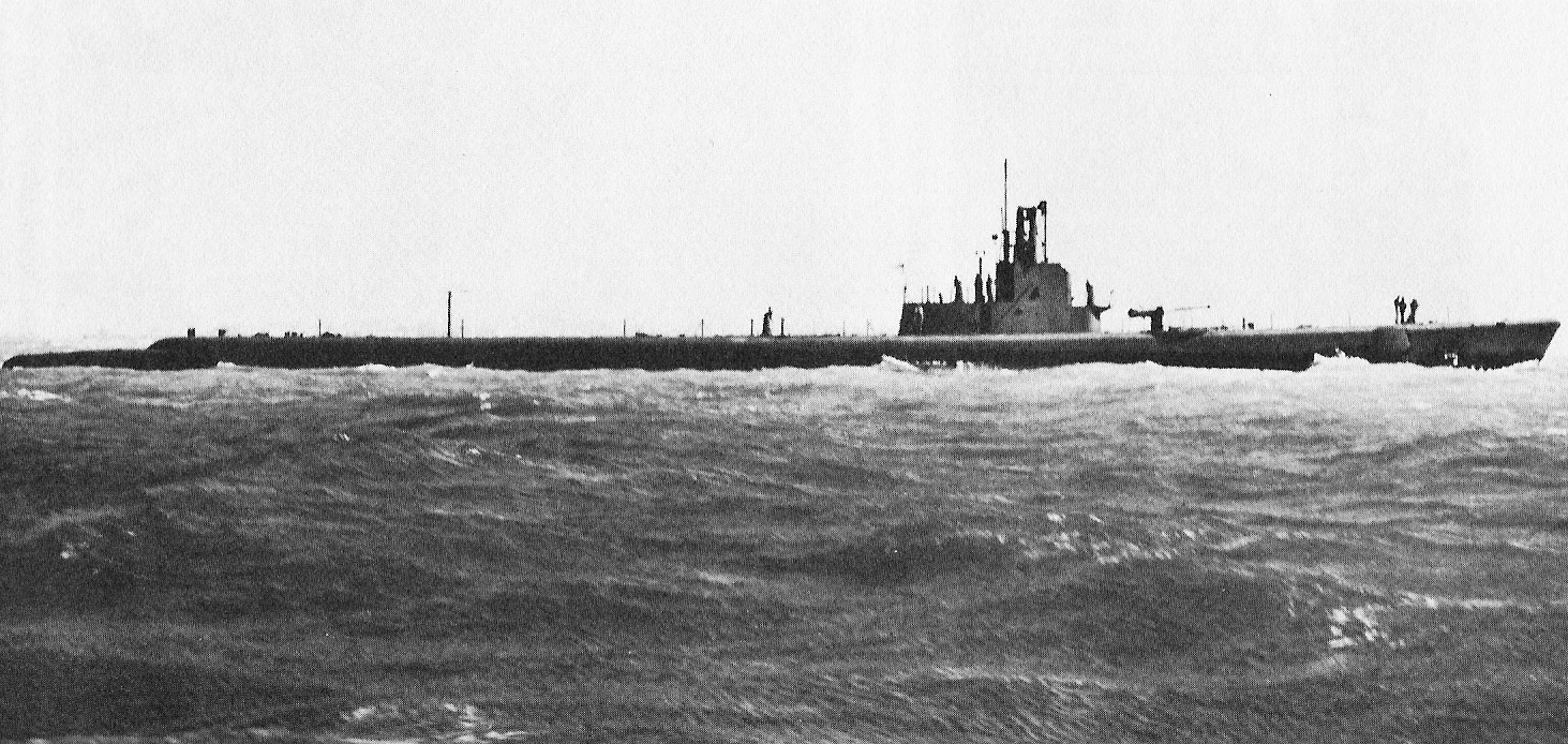 File Photo (Sept. 30, 1943) - USS Wahoo (SS 238) gets underway for her seventh war patrol after refueling at Midway Island Sept. 13, 1943. According to USS Bowfin Submarine Museum & Park representatives in Pearl Harbor, the photo is the last known of the Gato-class World War II submarine. On Oct. 11, 1943, nearly a month into the seventh patrol, a multi-hour combined sea and air attack involving depth charges and aerial bombs sunk the submarine. Adm. Gary Roughead, commander, U.S. Pacific Fleet, declared that the sunken submarine recently discovered by divers in the Western Pacific is the World War II submarine USS Wahoo (SS 238). Official U.S. Navy Photograph, now in the collections of the Naval Historical Center. (RELEASED)